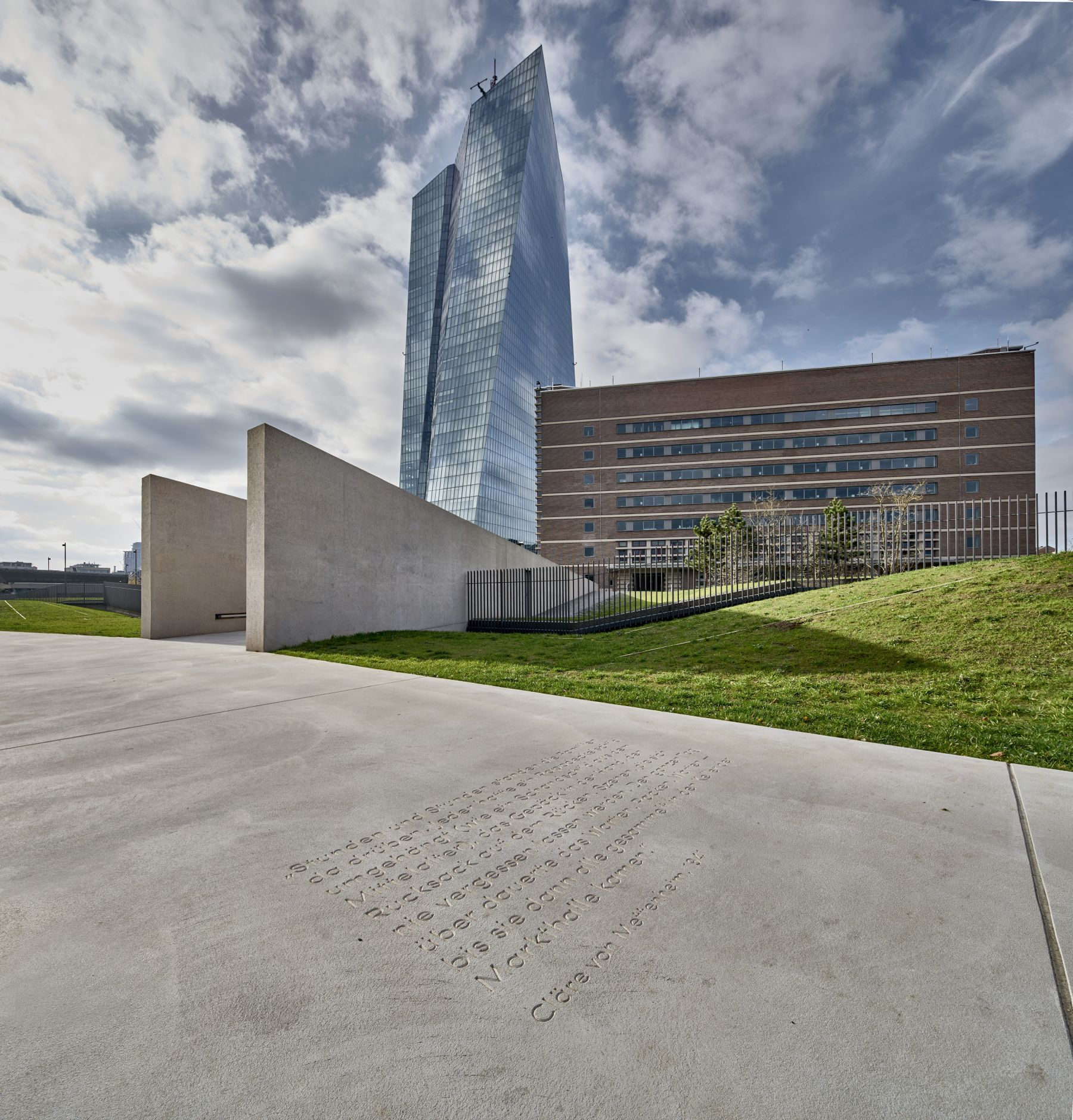 Holocaustmemorial at the former Frankfurt market hall. In the background the new building of the European Central Bank.